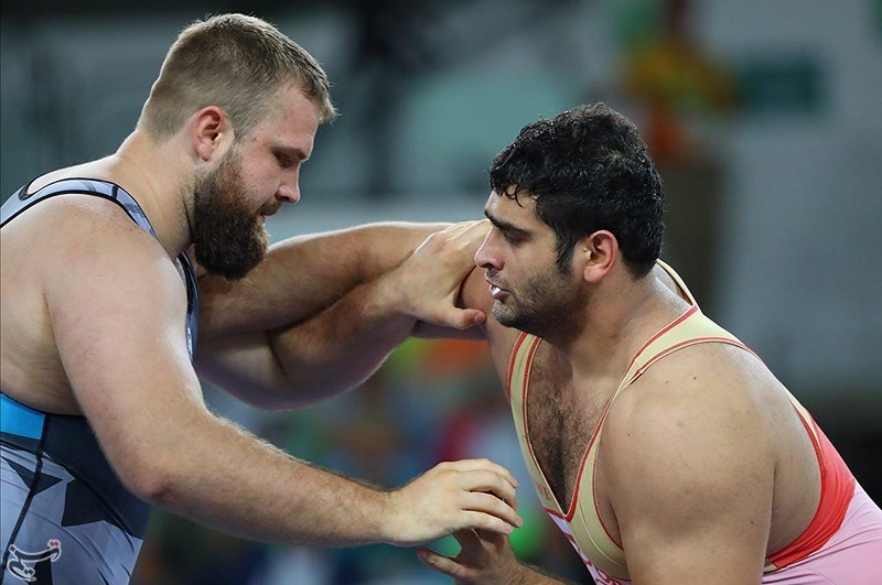 2016 Summer Olympics, Greco-Roman Wrestling 130 kg. Eduard Popp from Germany (left) vs Bashir Babajanzadeh from Iran (right)